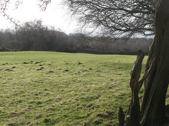 (The site of) Milecastle 25 (Codlawhill) (2), 3 km from Low Brunton, Northumberland, Great Britain. See also NY9469 : (The site of) Milecastle 25 (Codlawhill) .